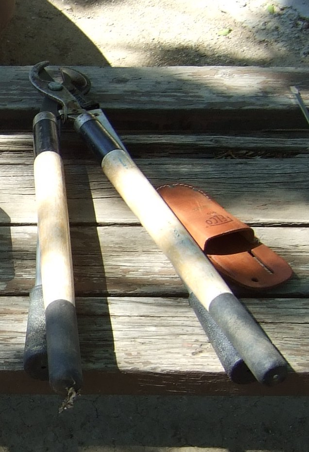 Pruning shears